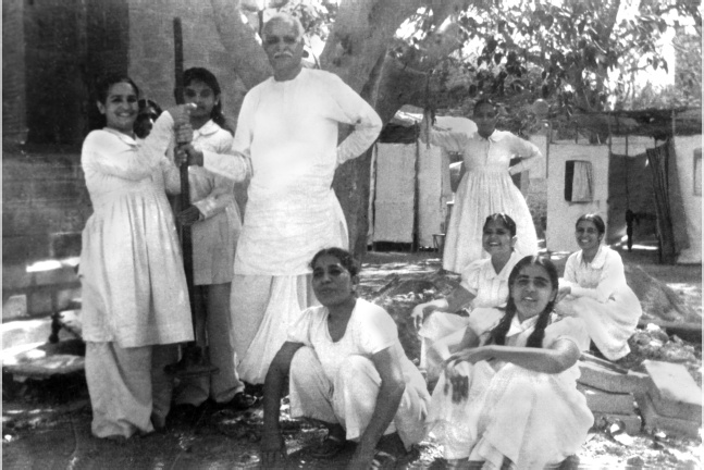 Brahma Baba with sisters_40ies